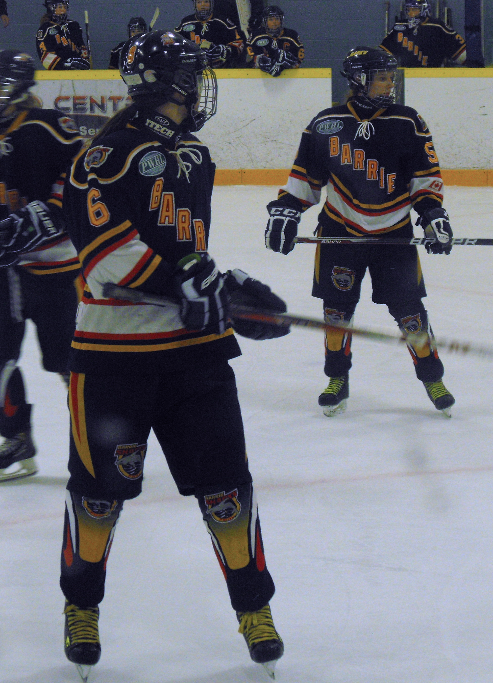 Taken by Devan Mighton during 2013-14 PWHL season.